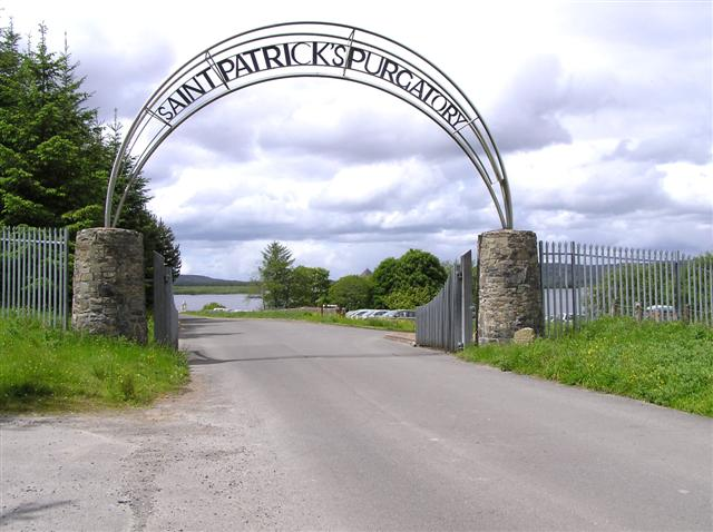 Saint Patrick's Purgatory, Lough Derg One of the oldest places of pilgrimage in the Christian world and one of the few remaining penitential pilgrimages